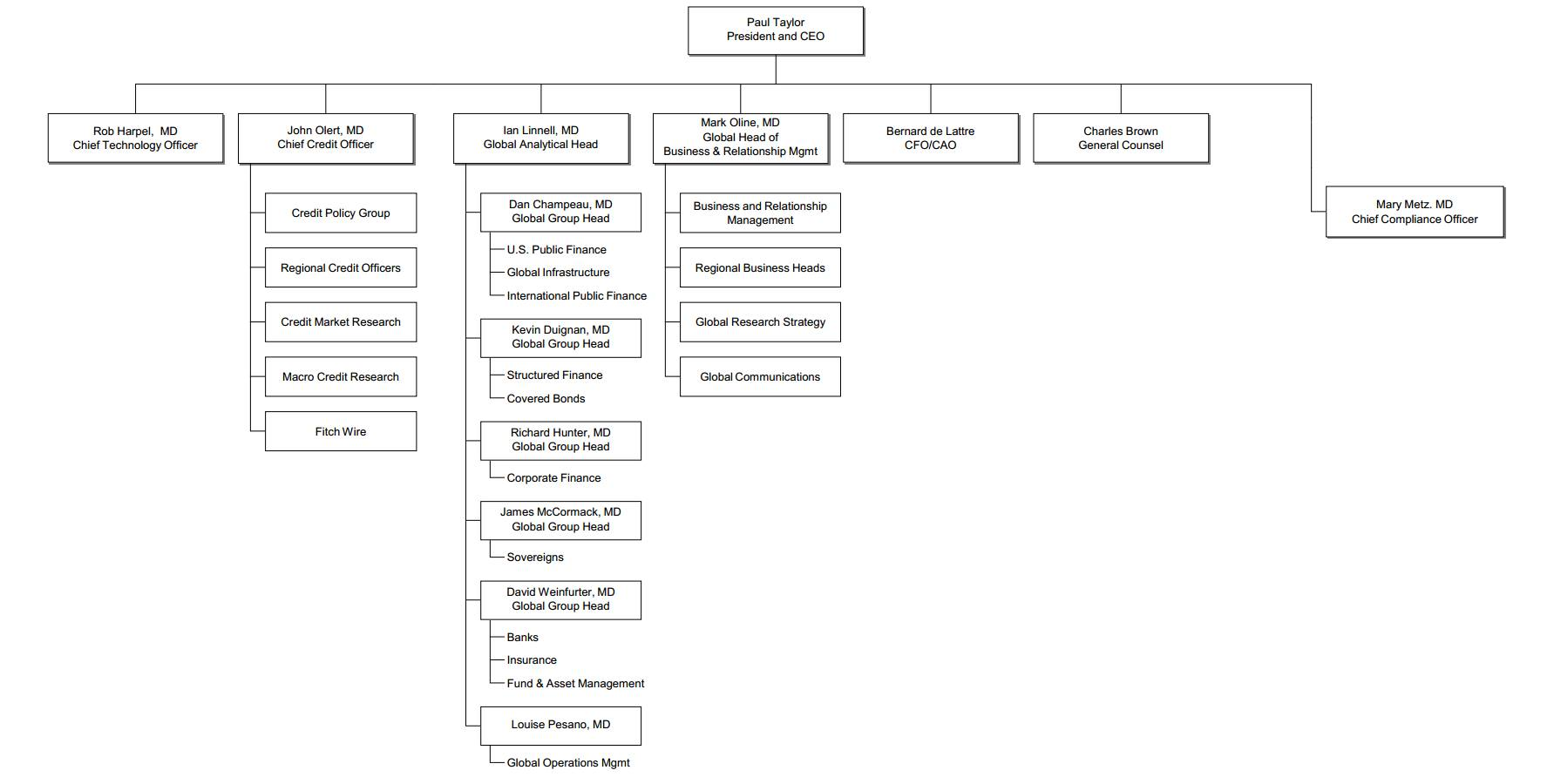 Organisational structure of Fitch